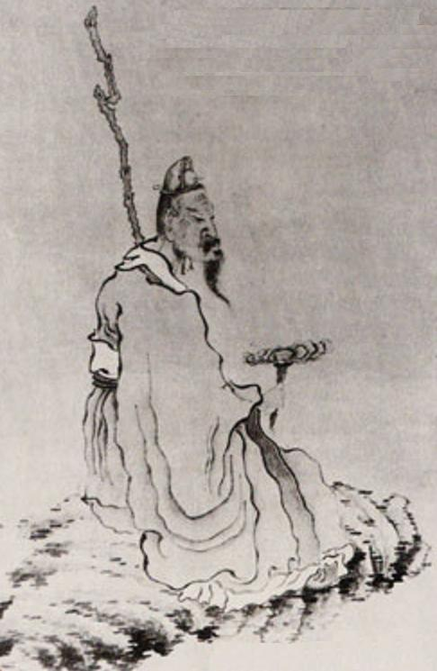 Man holding ganoderma mushroom. Artist = Chen Hungsho (1599-1652)